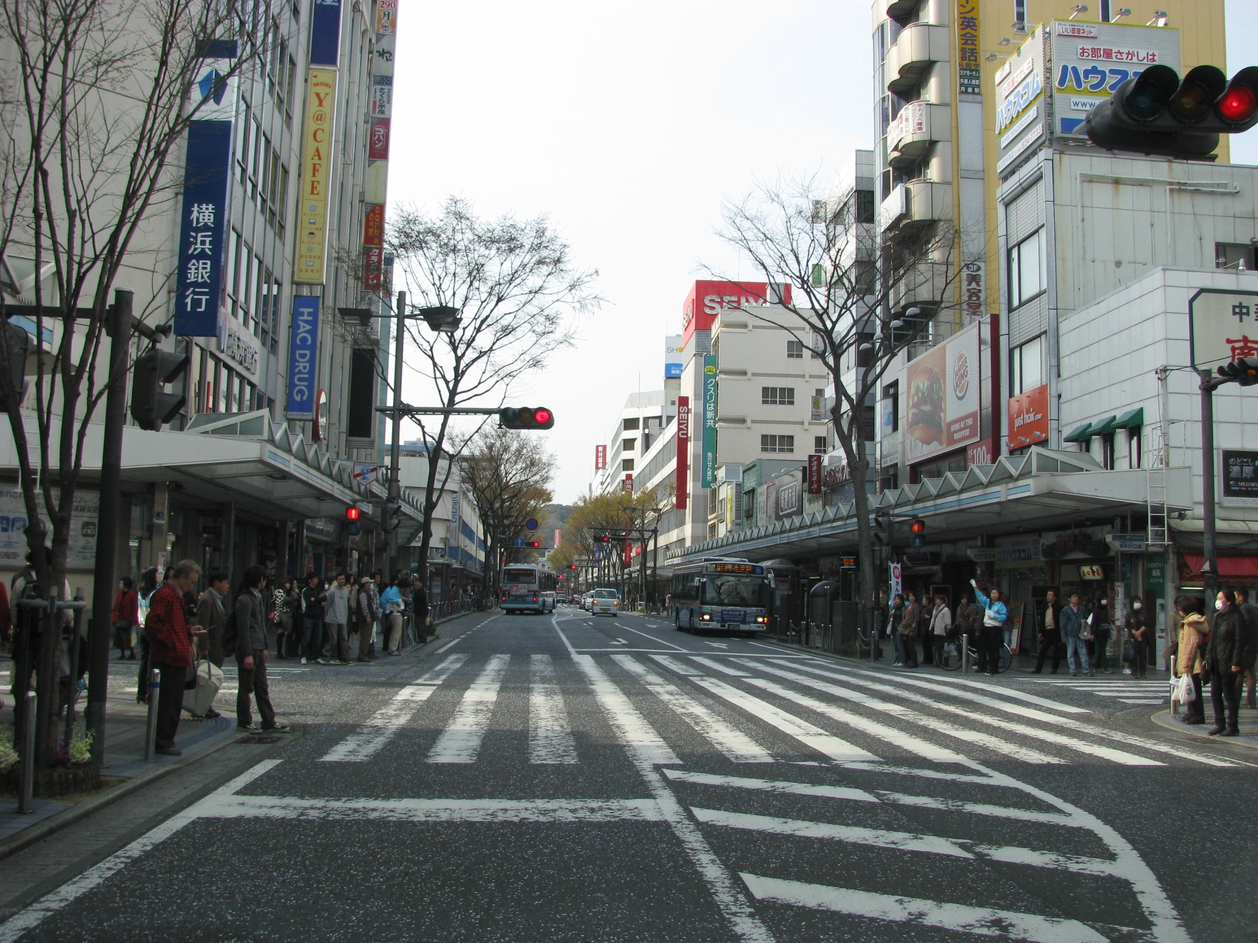 The Kanagawa Prefectural Route 26. This place is Wakamatsu-cyo in Yokosuka, Kanagawa Prefecture, Japan.